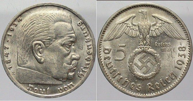 Nazi German 5 Reichsmark.